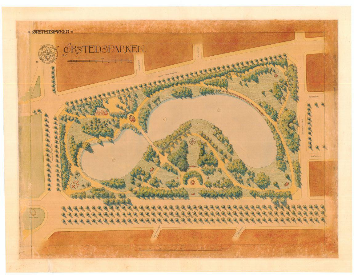 Plan of Ørstedsparken in Copenhagen from the Baltic Exhibition in Malmö